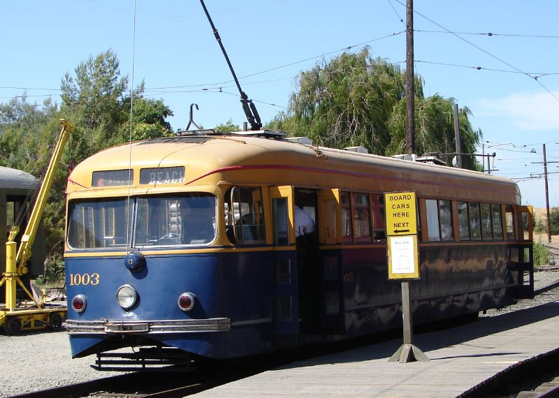 San Francisco Municipal Railway 31003 in August 2006